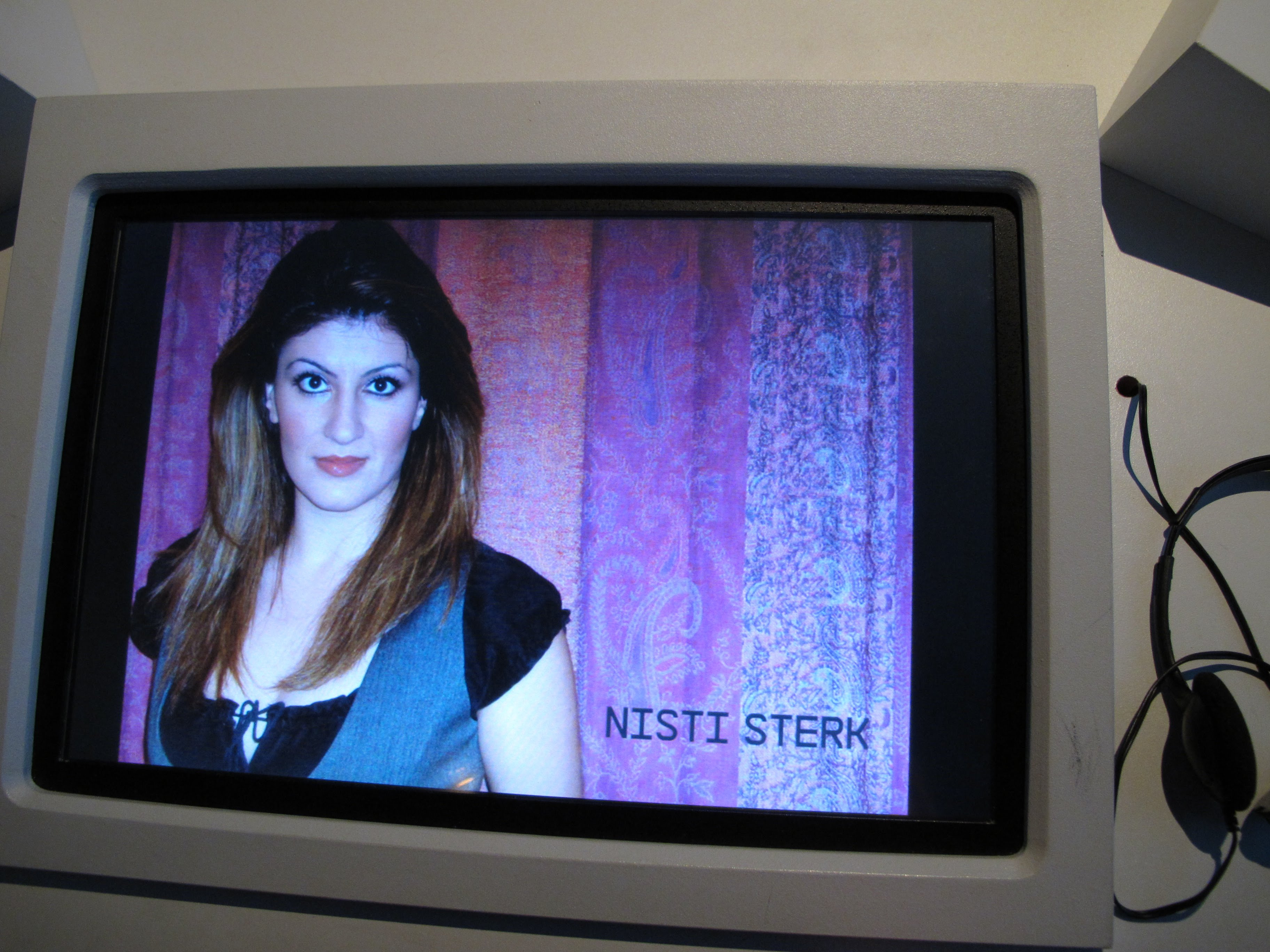 Video message from Nisti Stêrk in Swedish History Museum